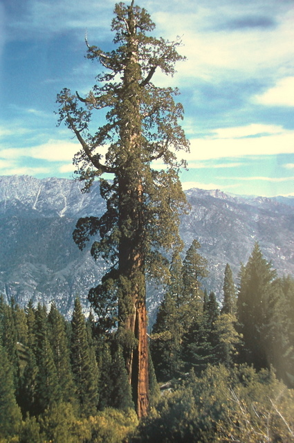 The Boole Tree — an ancient Sequoiadendron giganteum (Giant Redwood), in the Converse Basin Grove, Sequoia National Forest, Sierra Nevada, California.